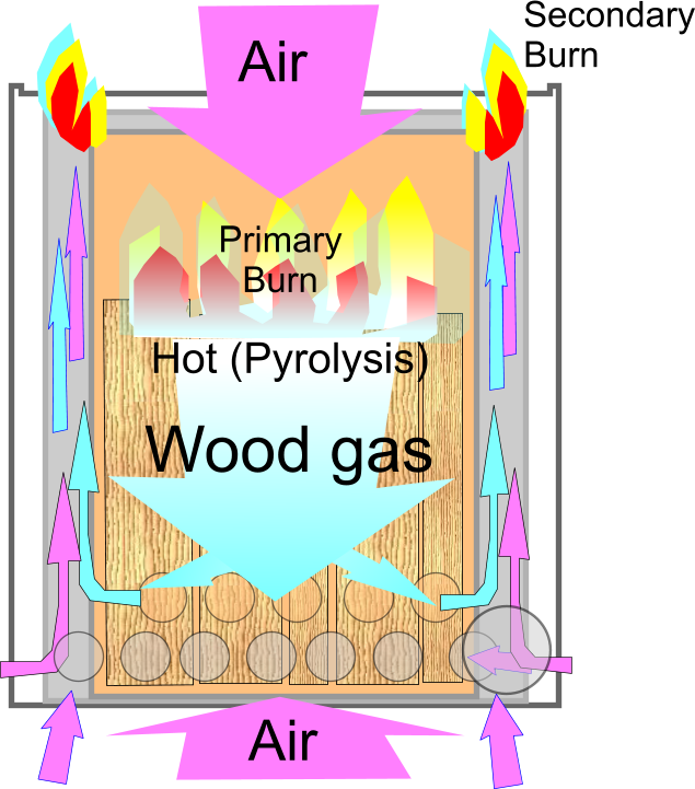 Describes the principle of a simple downdraft stove based on wood gasification